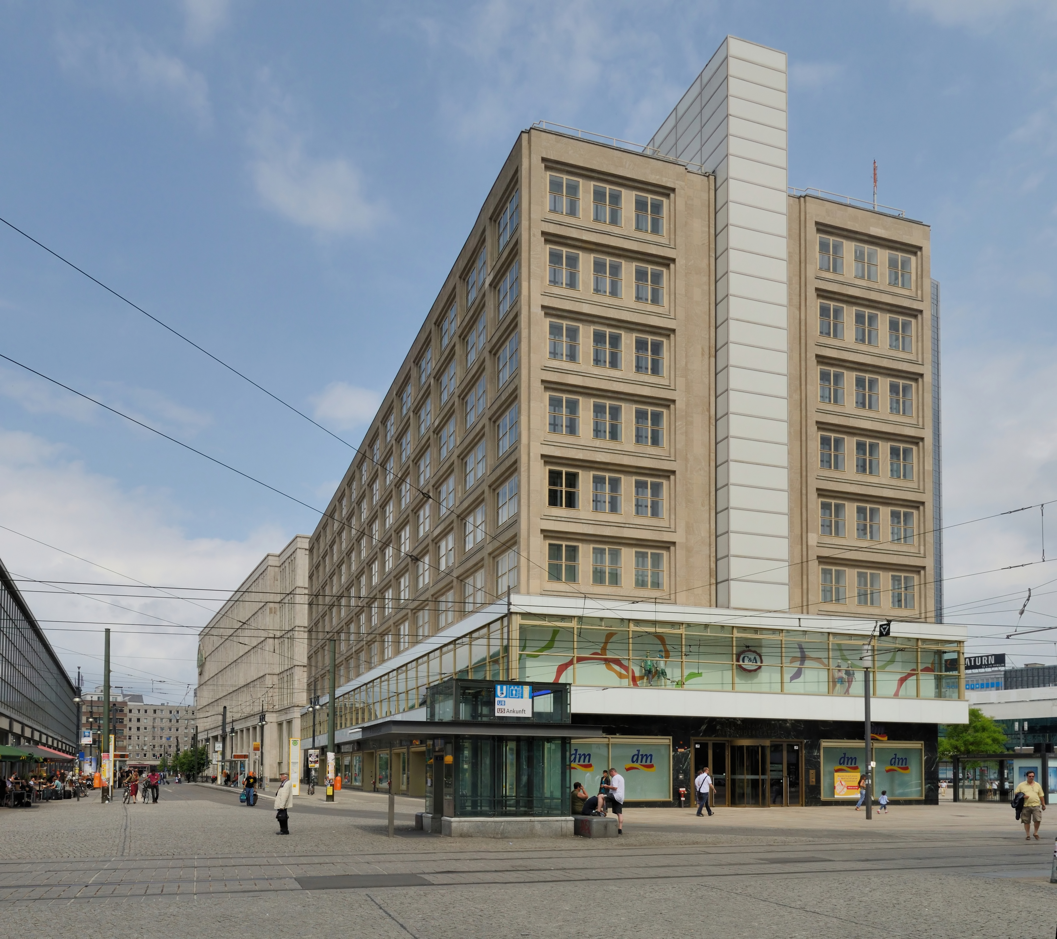 Berlin: building "Berolina"